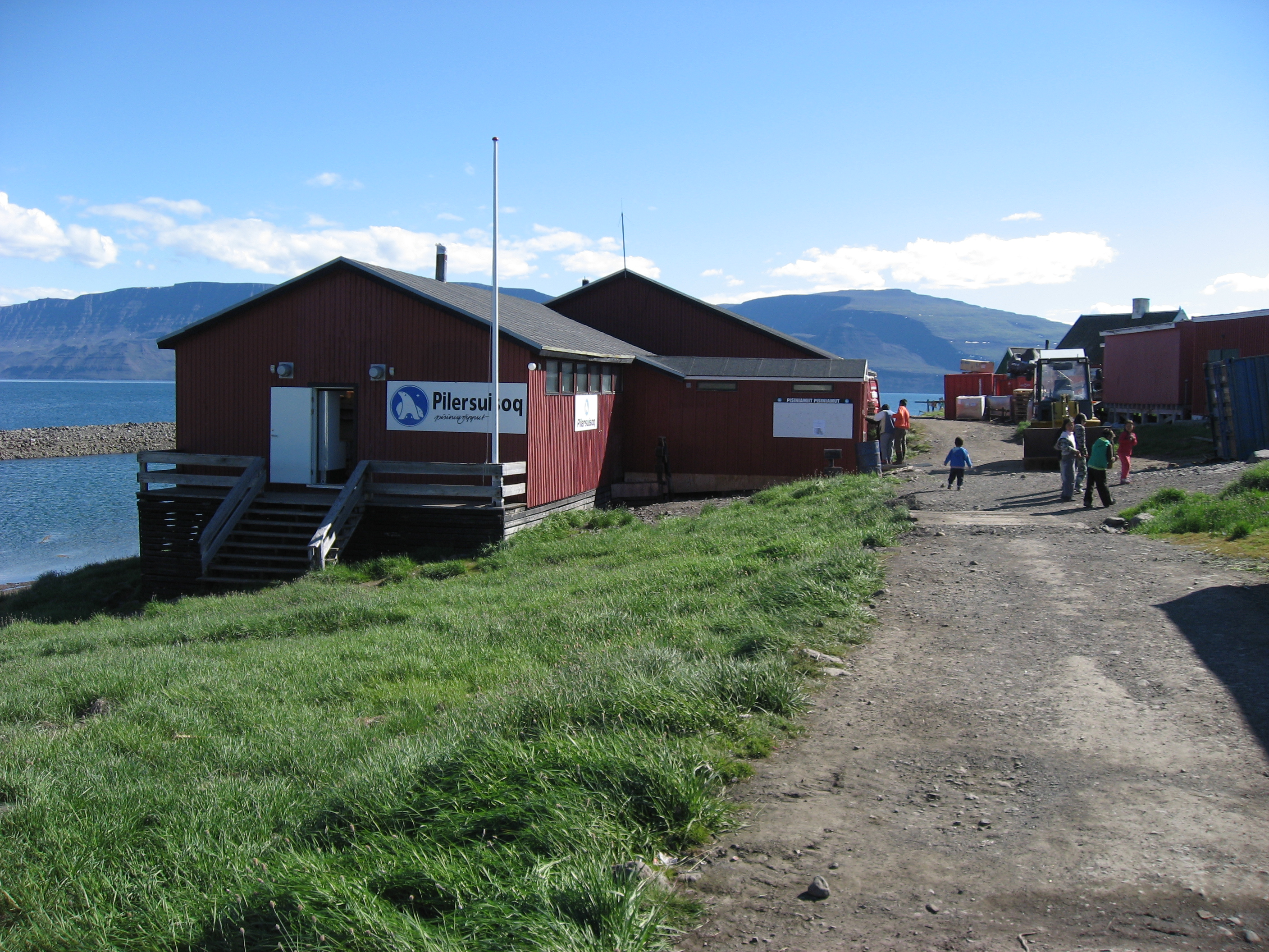 The shop (Pilersuisoq) in Upernavik Kujalleq, Greenland.